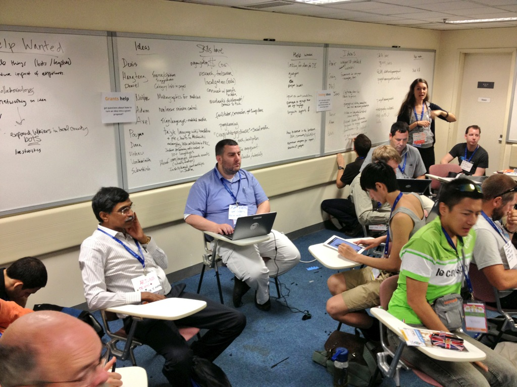 Wikimania 2013: IdeaLab session